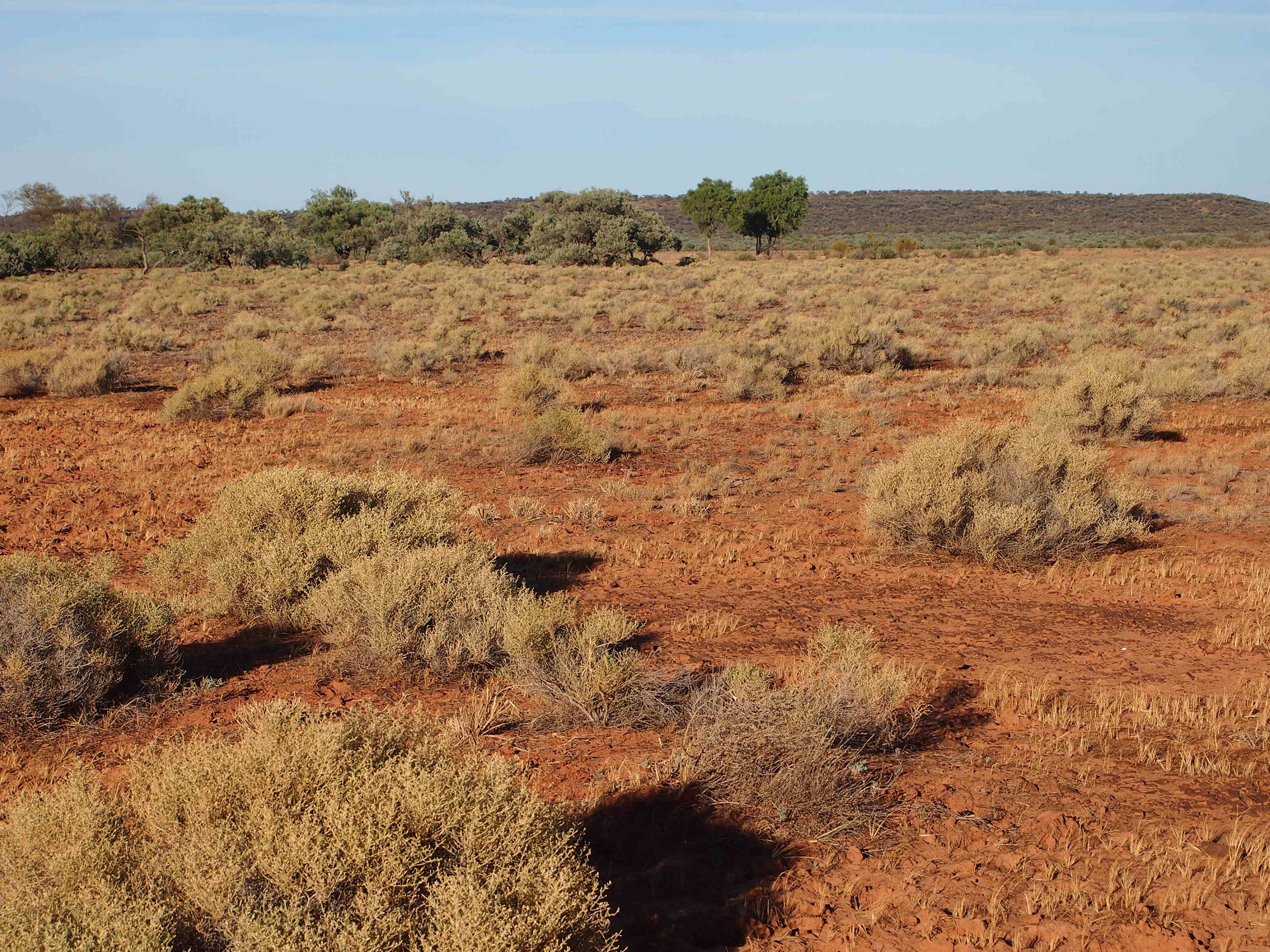 Samphire shrubland (Tecticornia tenuis), central Australia